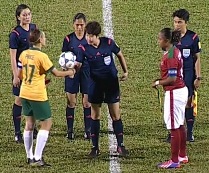 Olivia Price Captaining the Young Matildas against Indonesia